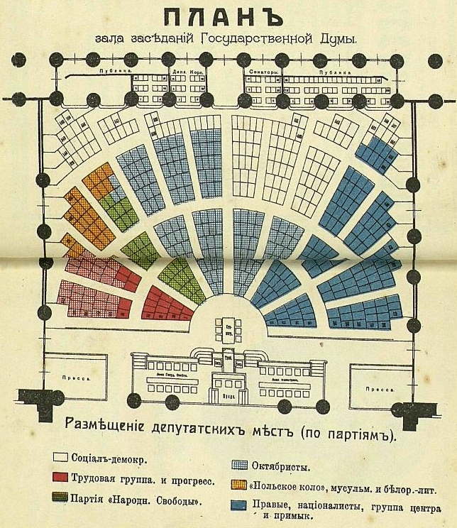 State Duma of the Russian Empire of the third convocation